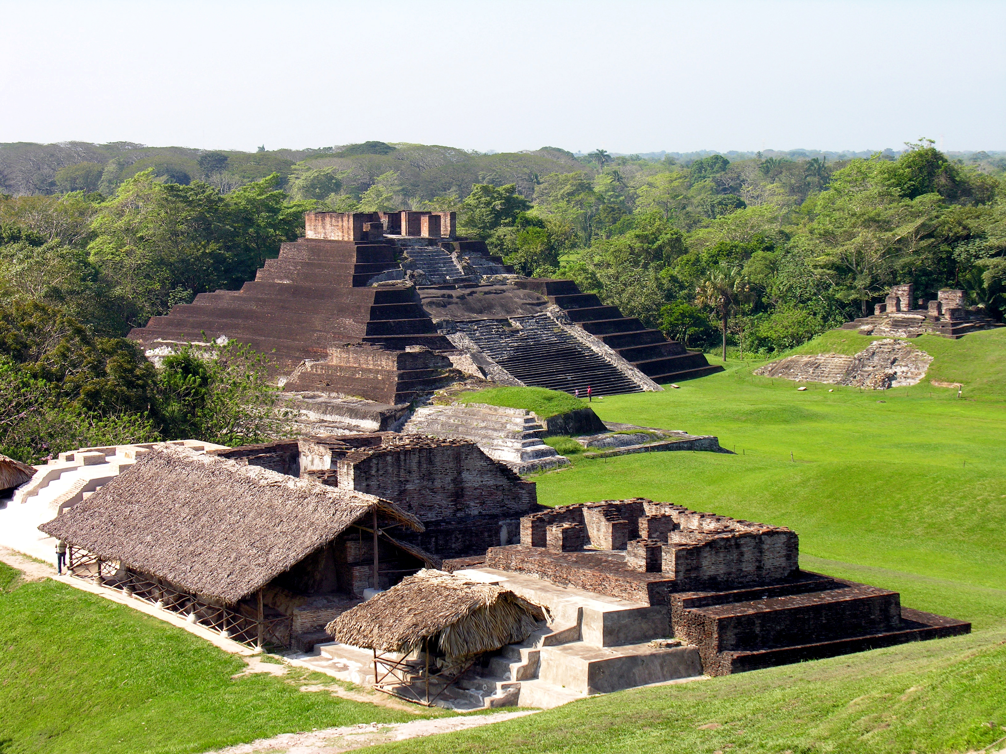 PLEASE, NO invitations or self promotions, THEY WILL BE DELETED. My photos are FREE to use, just give me credit and it would be nice if you let me know, thanks. Comalcalco - Looking down from the Palace. Temples VI and VII in front. Temples IIIA and III with Temple I in the back. Temple II is on the right side of the North Plaza. Comalcalco, Mexico The literal English translation of "Comalcalco" is "In the house of the comals". A "comal" is a tortilla-pan. Although this is a name given by Aztecs, recently the Maya name has been deciphered and it is "JOY CHAN" (knotted ceiling). The Mayan ruins at Comalcalco are mystery to archeologists and other researchers studying the unique architectural style of the ancient city because of its use of a special type of kiln - brick technology. Other Mesoamerican of the Maya, were built using hand carved limestone blocks - not bricks.